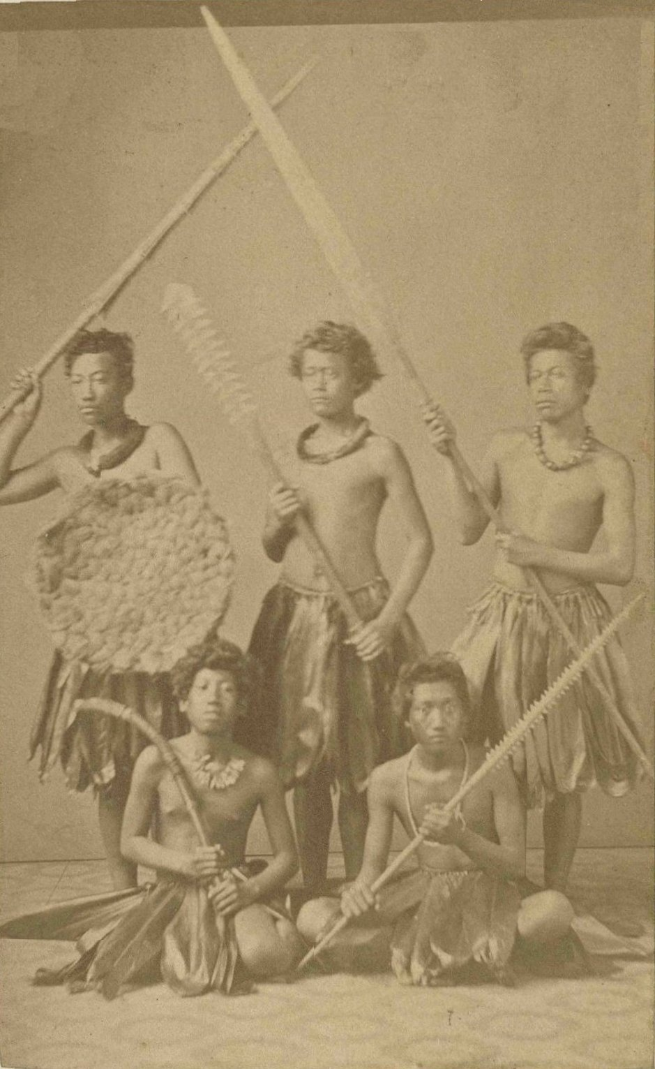 Group of Hawaiian Warriors Dressed in Native Costume, c. 1860, carte de visite by Henry L. Chase (1832-1901)